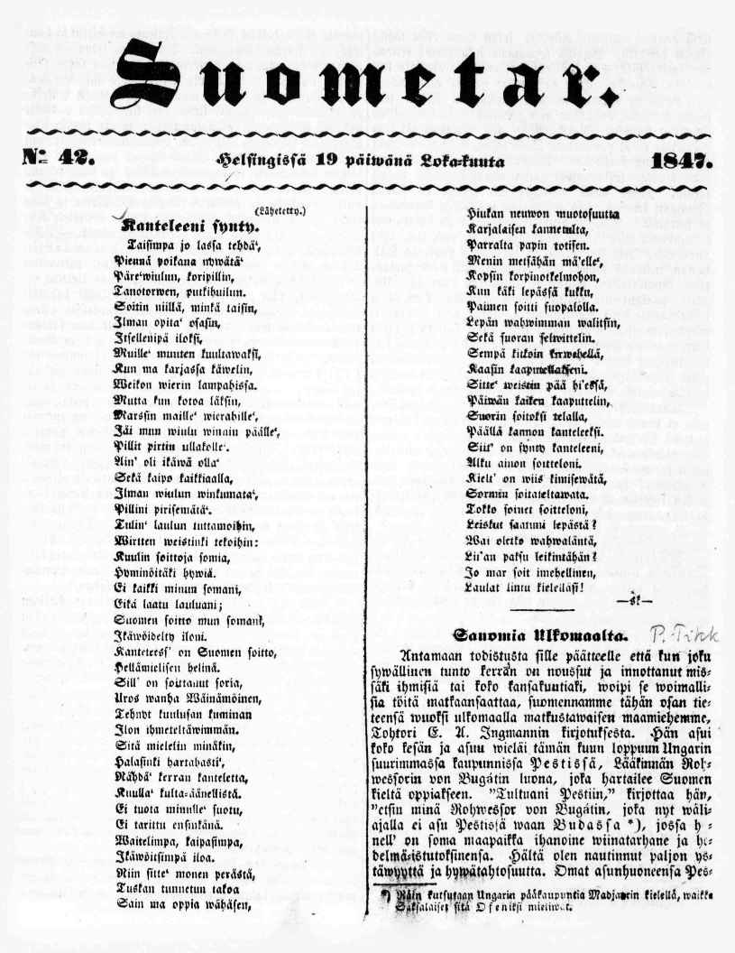 Suometar, the first Finnish newspaper.